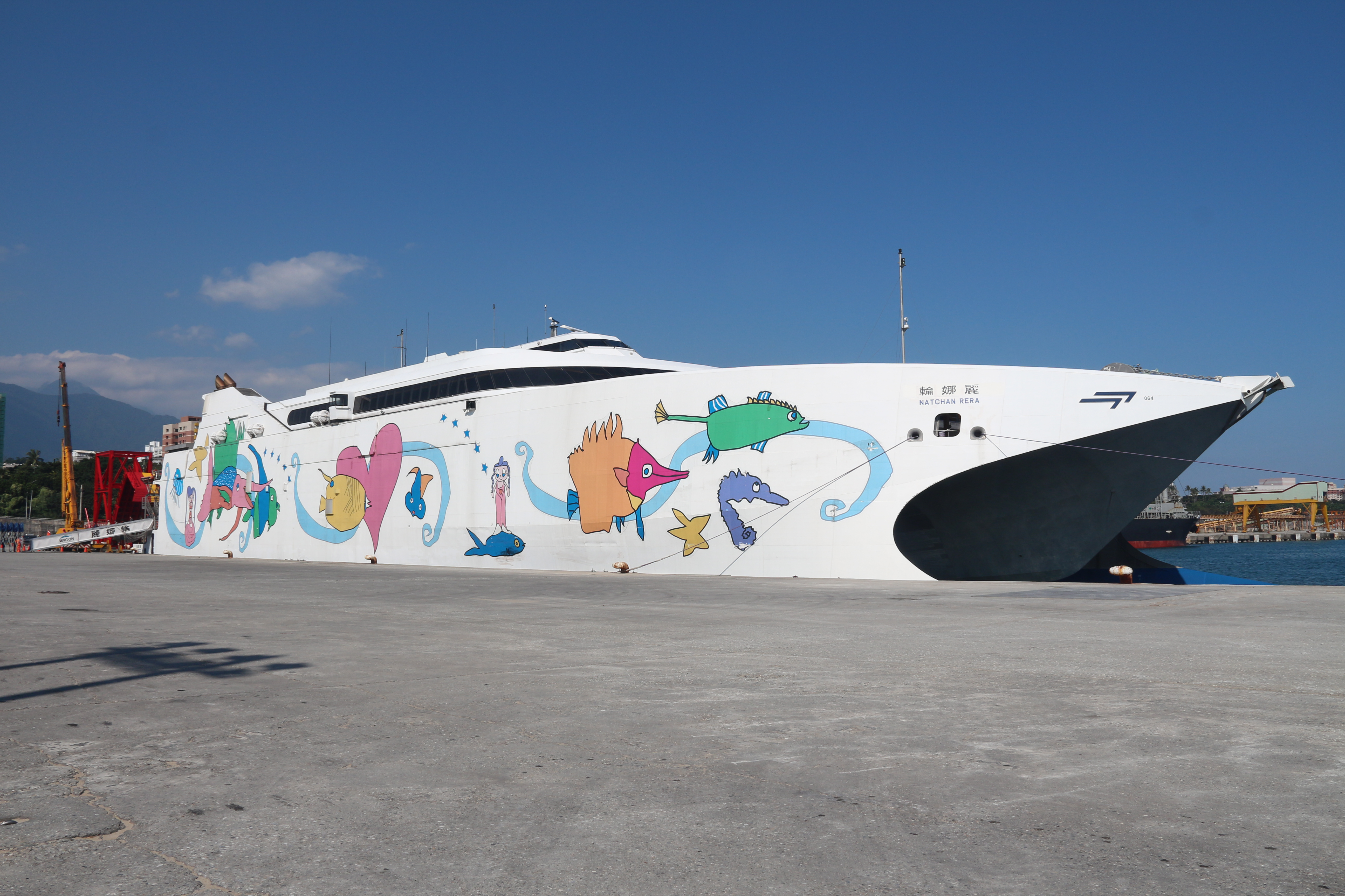 Natchan Rera in Hualien port, Taiwan.中文（台灣）: 麗娜輪於台灣花蓮港。